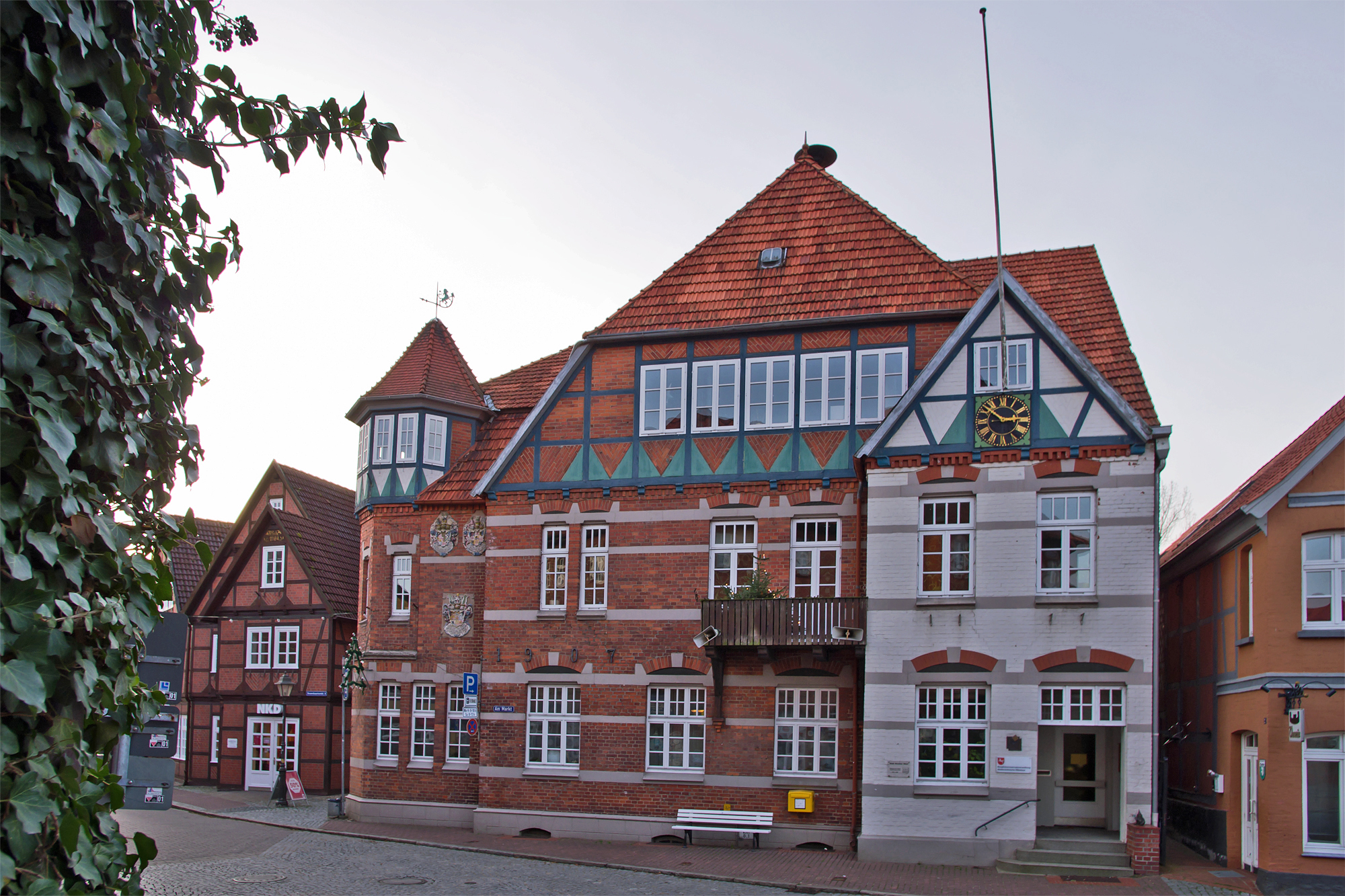 Building "Marktplatz 1" in Hitzacker (district Lüchow-Dannenberg, northern Germany); seat of the Biosphere reserve management "Niedersächsische Elbtalaue".